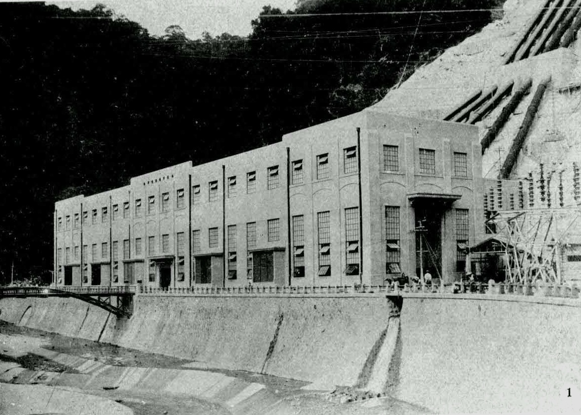 日月潭第一發電所 (c. 1934)